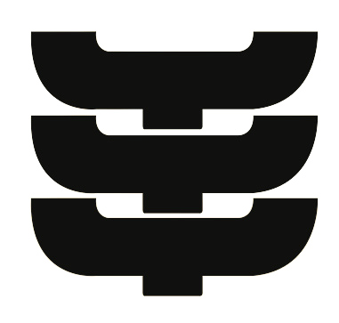 The Protection of Cultural Properties Logo of the Cultural Properties Department of the Agency for Cultural Affairs of Japan